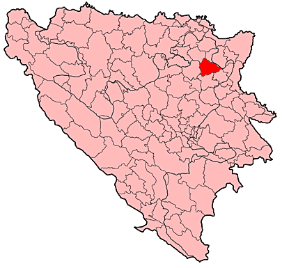 Municipality of Tuzla in Tuzla Canton, the Federation of Bosnia and Herzegovina, Bosnia and Herzegovina